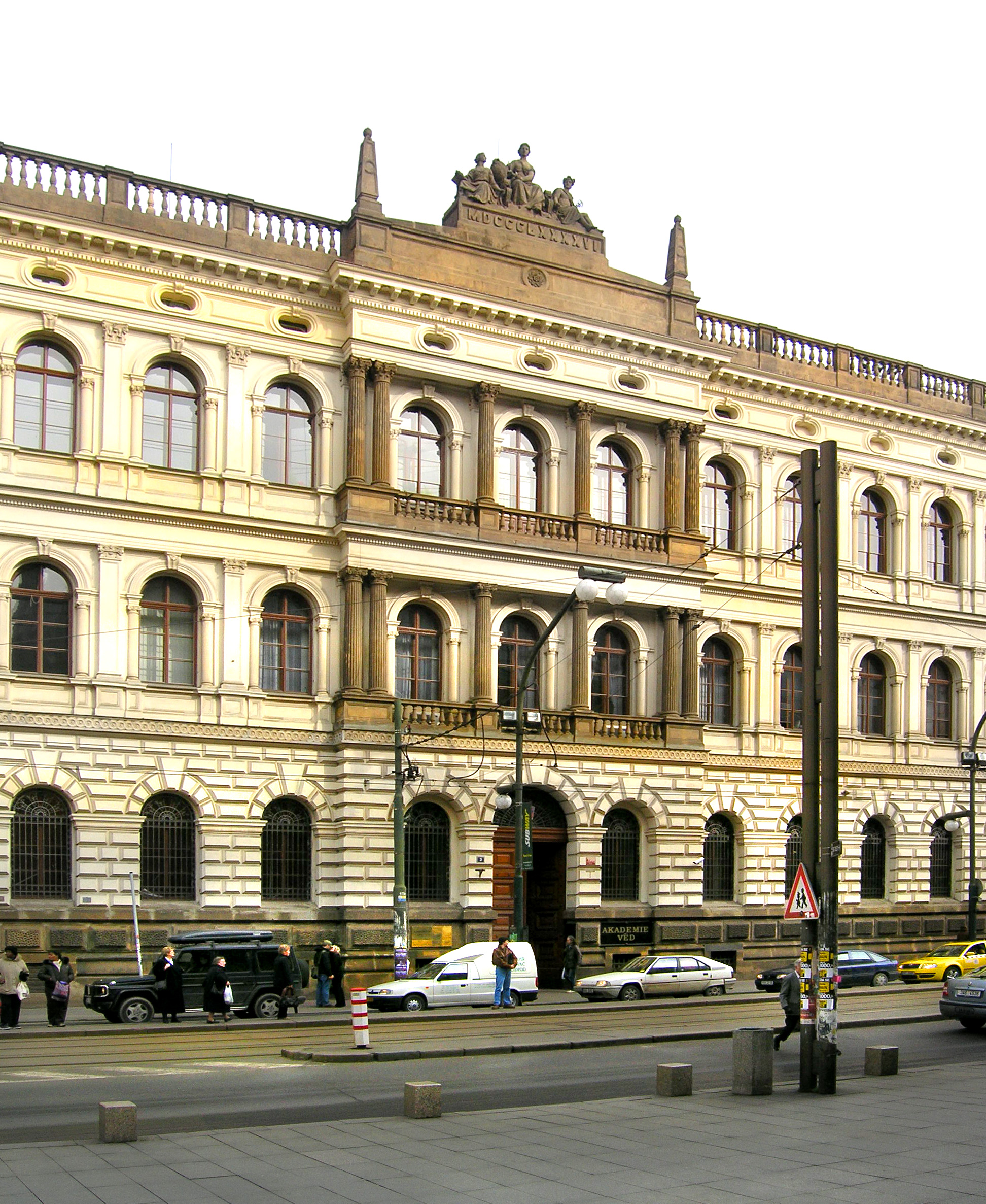 Academy of Sciences of the Czech Republic, Prague. The building was originally constructed for a savings bank by architect Vojtěch Ignác Ullmann (1822-1897). The author of the sculpture on the top is Antonín Wildt (1830-1883).